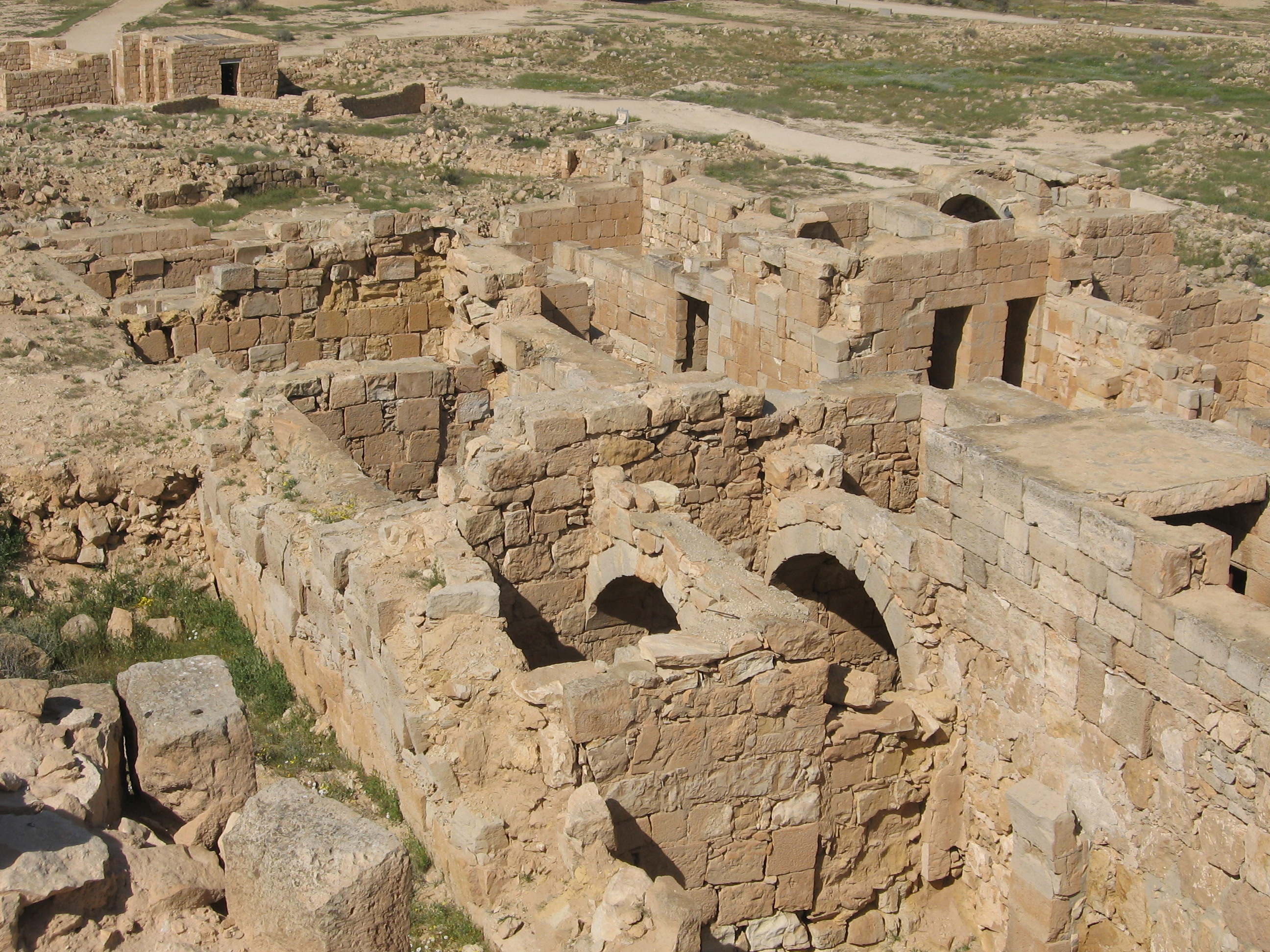 The general view on Mamshit